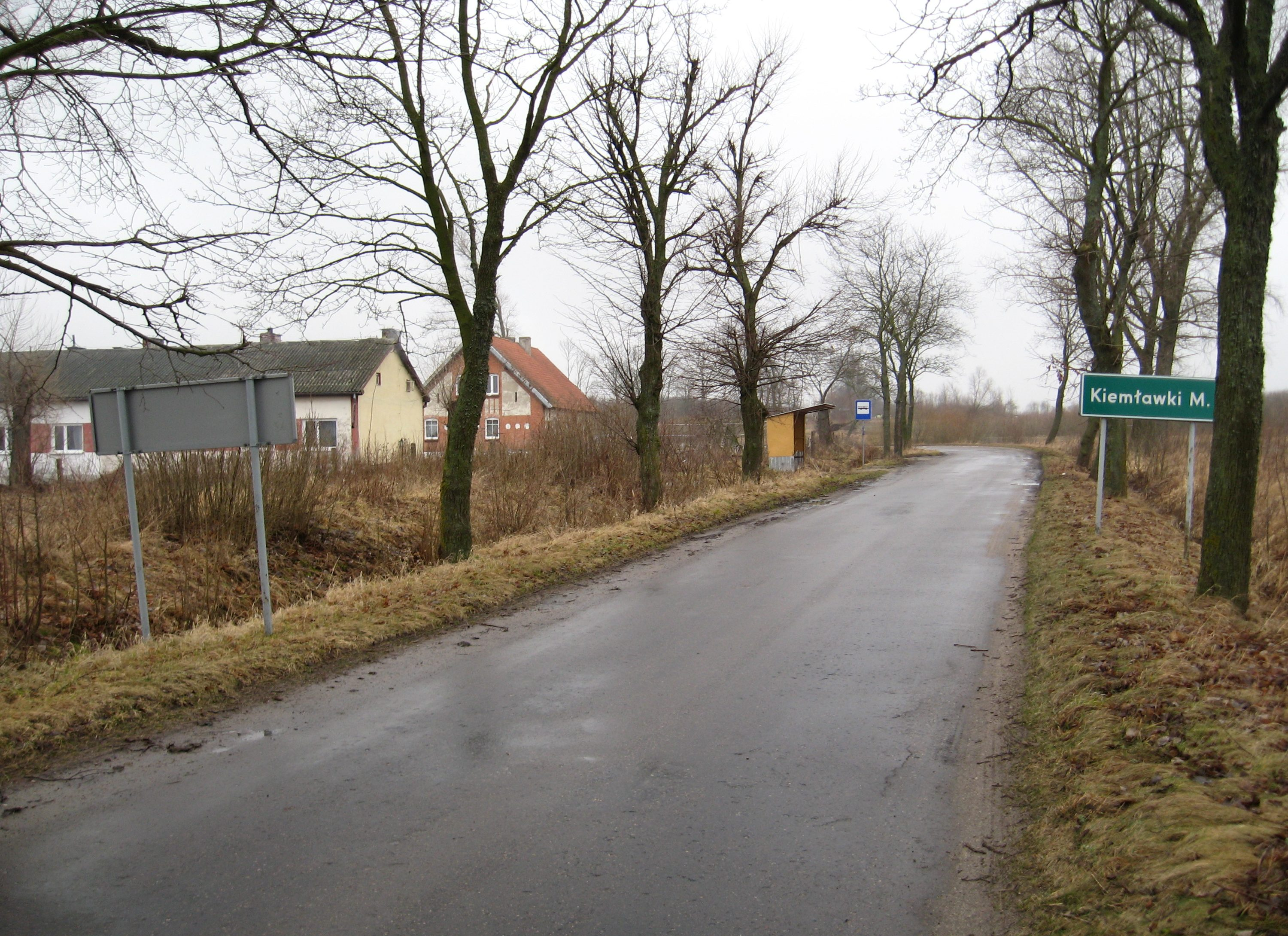 The village Kiemławki Małe in Poland - OpenStreetMap (Info)